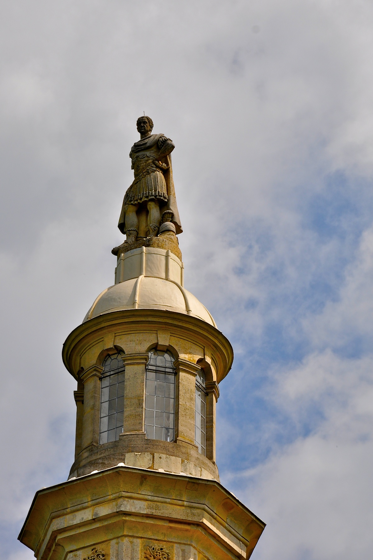 Lord Cobham's Monument